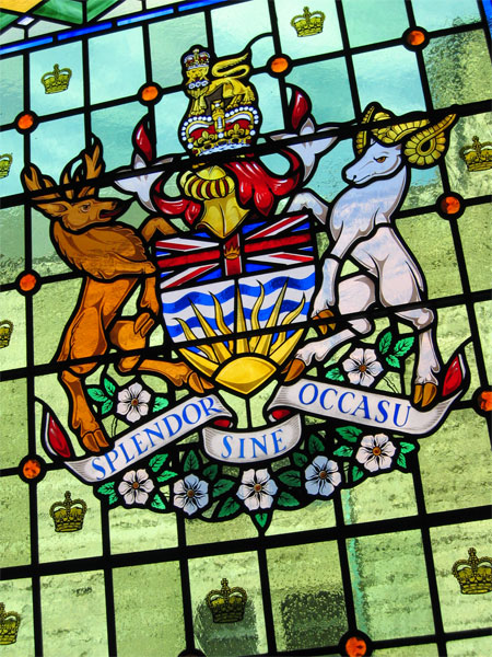 Parliament House, Victoria, BC.Splendor Sine Occasu